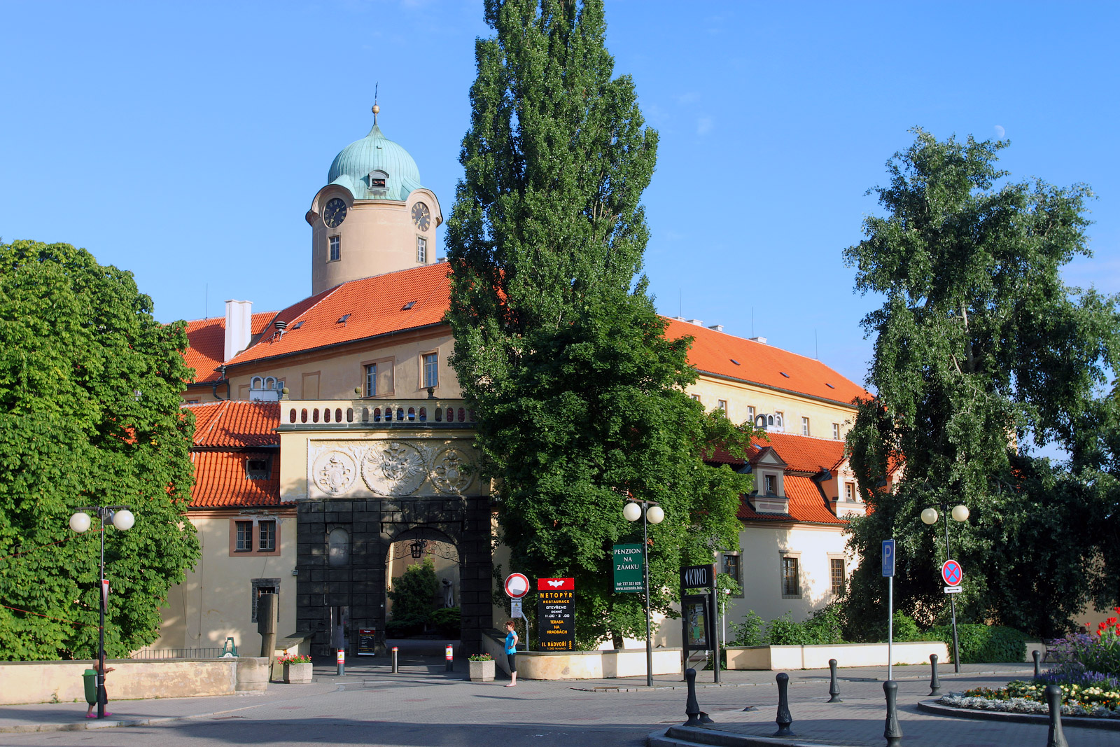 Podebrady castle